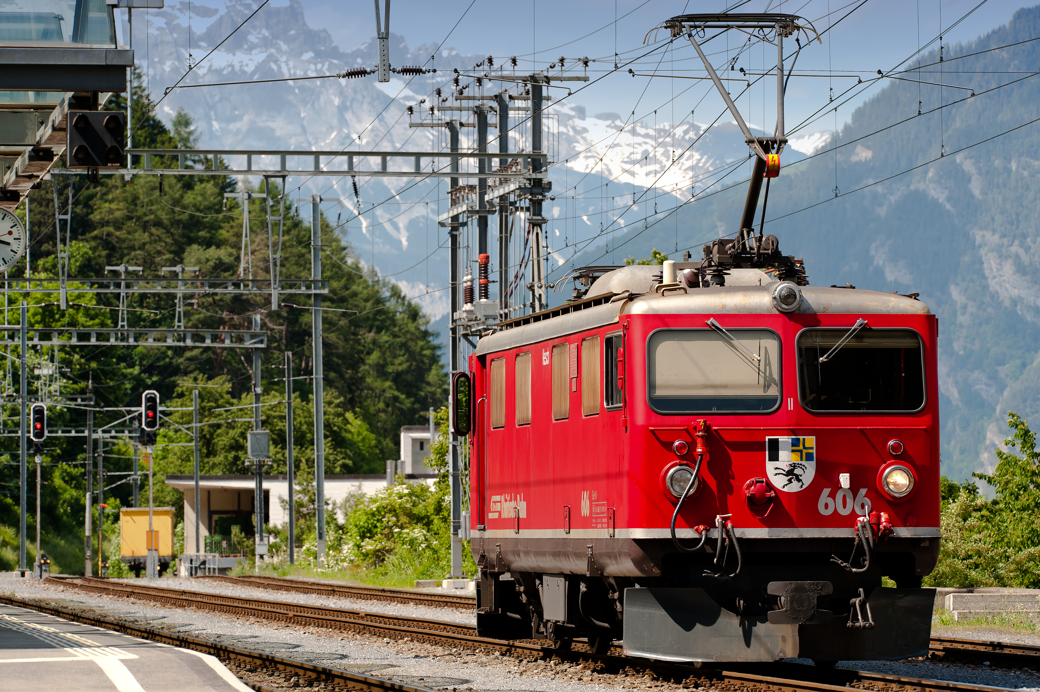 Railway station Thusis